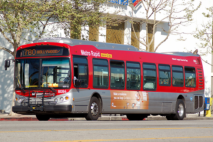 A NABI 45C-LFW bus on LACMTA Metro Rapid Route 780, on Colorado Blvd. and Rockland Ave. in Eagle Rock, California.